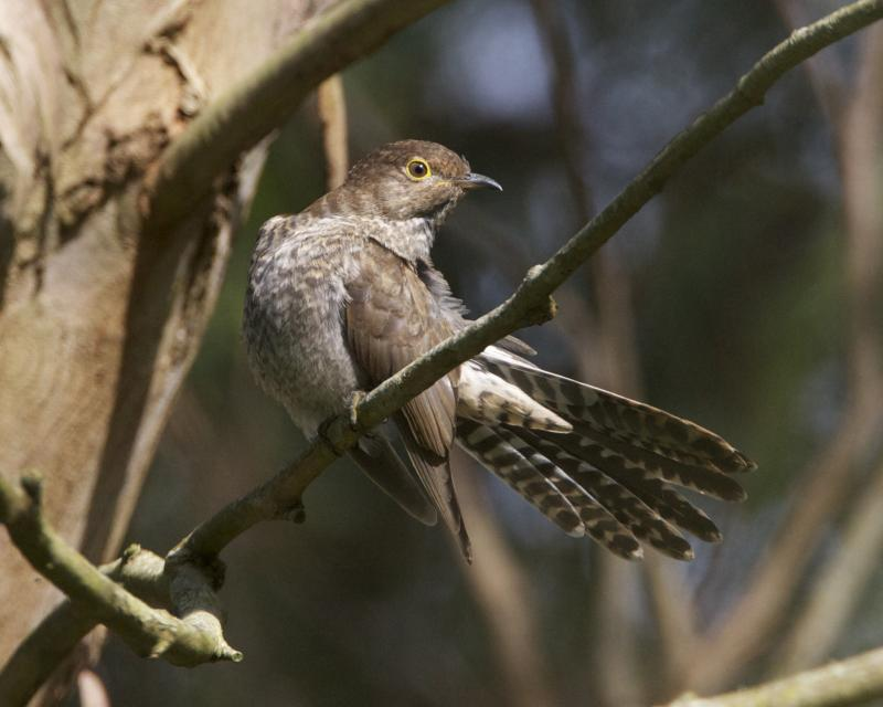 Fan-tailed Cuckoo - must be one of the rare occasions it is seen fanning its tail out. Cacomantis flabelliformis Nominate race , Cacomantis flabelliformis flabelliformis Jerrara Dam, NSW, Australia 28th. December 2010 Distribution: ssp 690V6702